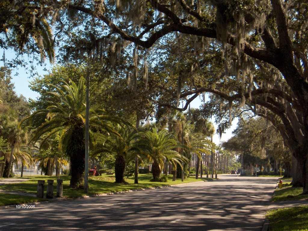 This is a small piece of a beautiful stretch of Venice Avenue between downtown and Venice Beach.